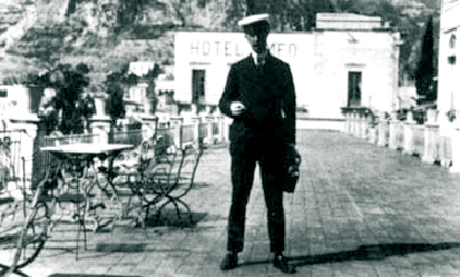 Photograph of Montagu Brownlow Parker in Jerusalem.